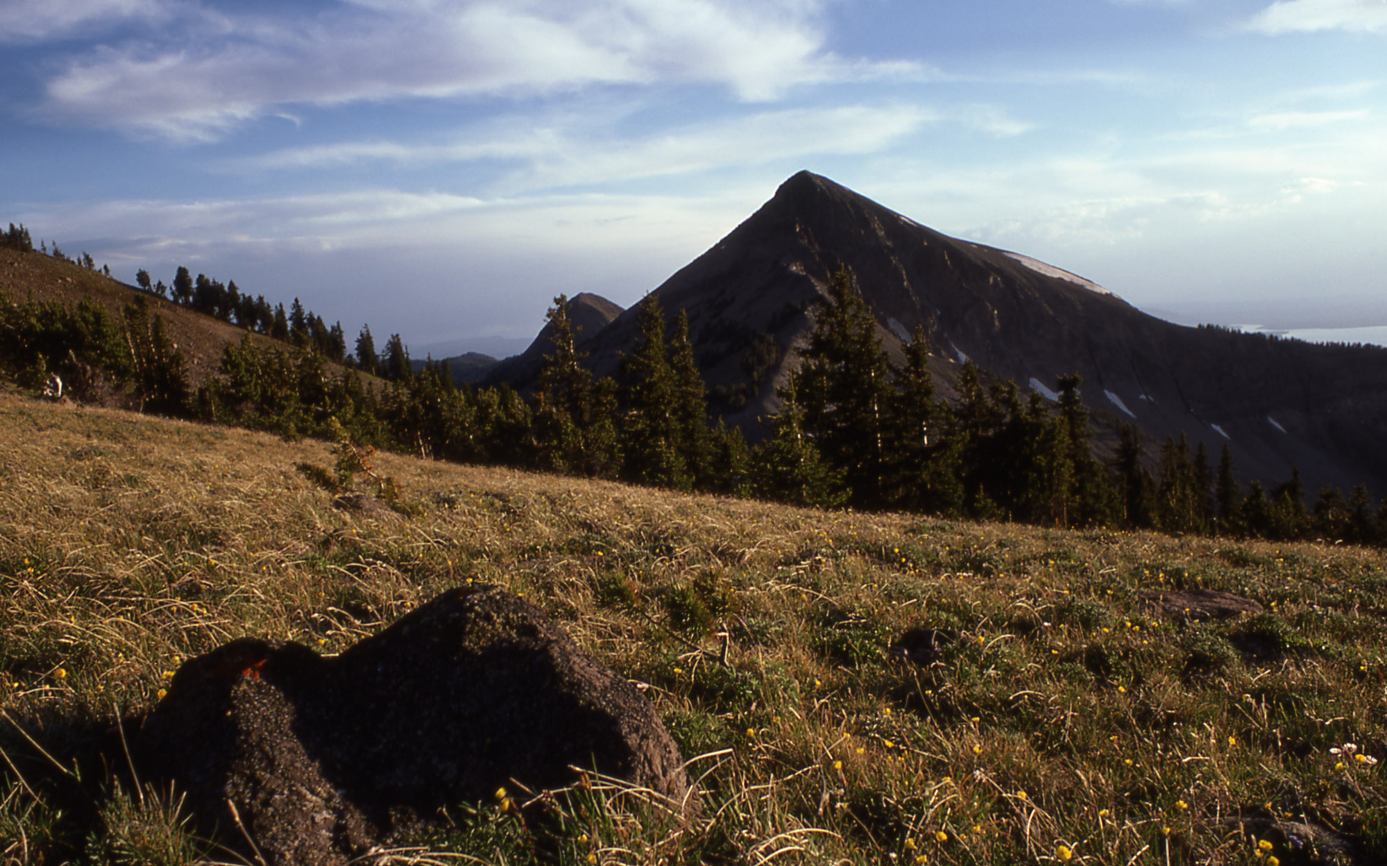 Mount Doane, Yellowstone National Park, Wyoming, 1977